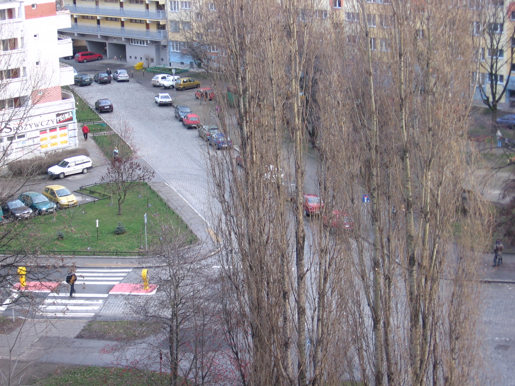 Lubuska street and Skwierzyńska street in Wrocław, Poland; cul-de-sac (dead end street)